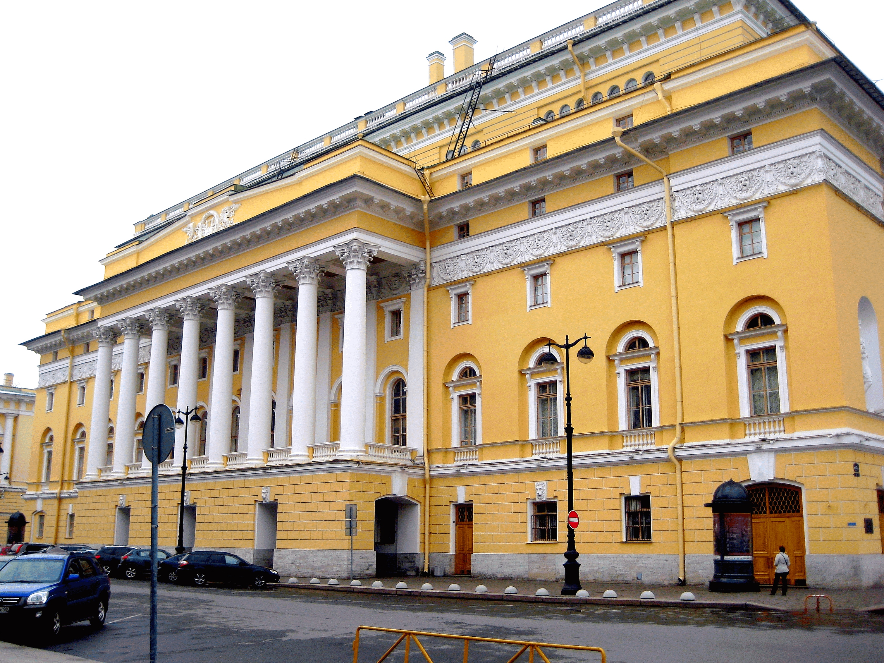 The Alexandrinsky Theater. East facade: Ostrovsky square, 2, Central district, St. Petersburg